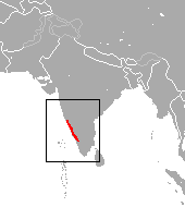 Black-footed Gray Langur (Semnopithecus hypoleucos) range